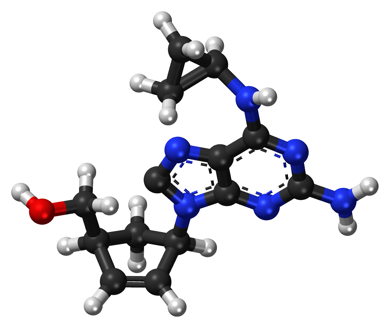 Ball-and-stick model of an abacavir (original brand name Ziagen)—a nucleoside analogue reverse-transcriptase inhibitor (NRTI) used in the treatment of HIV infection. Created using Accelrys DS Visualizer 4.1 and Adobe Photoshop CC 2015. Colors used: Carbon, C: dark grey Hydrogen, H: light grey Nitrogen, N: blue Oxygen, O: red This image was created with Discovery Studio Visualizer.